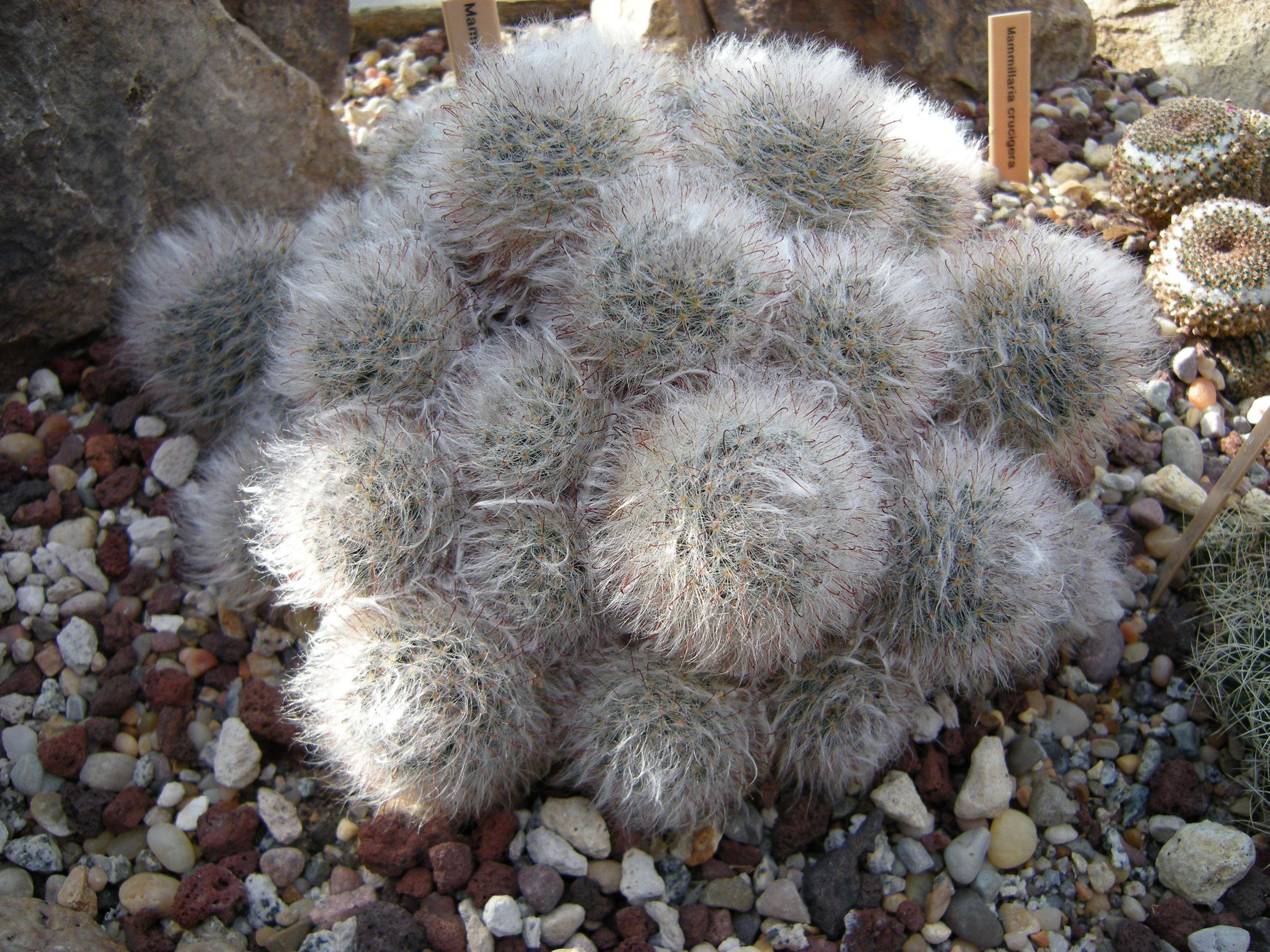 Mammillaria bocasana. Photographed at Volunteer Park Conservatory, Seattle, Washington.